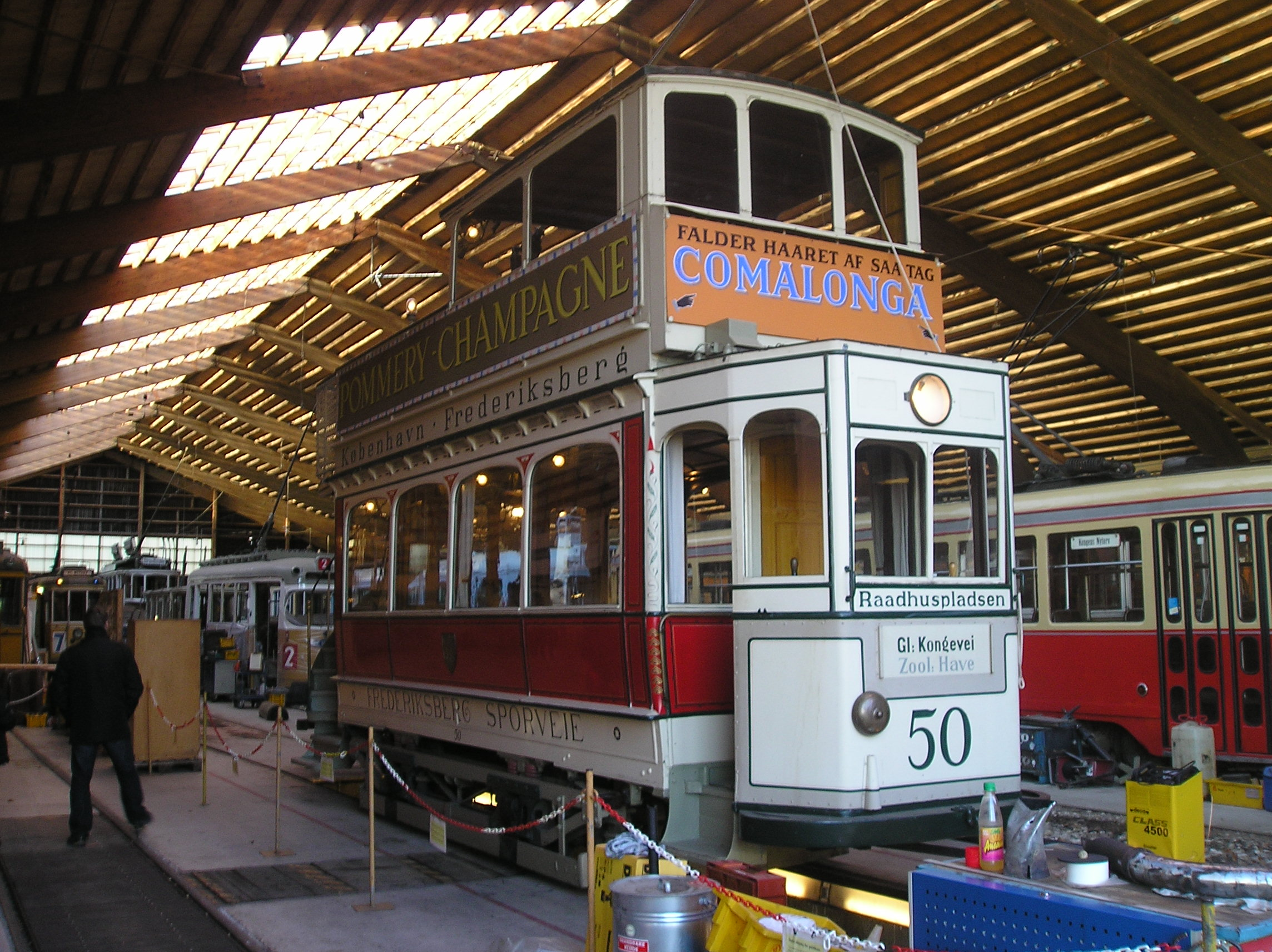 Old tram from Copenhagen FS 50 at Sporvejsmuseet Skjoldenæsholm in Denmark.